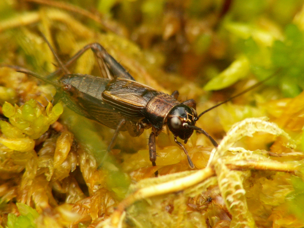 Wood Cricket (Nemobius sylvestris frontal view)